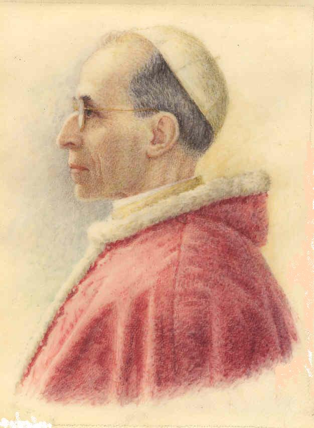 A picture of Pope Pius XII made after his election to the papacy in 1939. It was composed by a French nun, who donated it to the Pontiff. He upon looking at it, decided "this is not me" and gave to Madre Pascalina Lehnert, who gave to the copyholder.